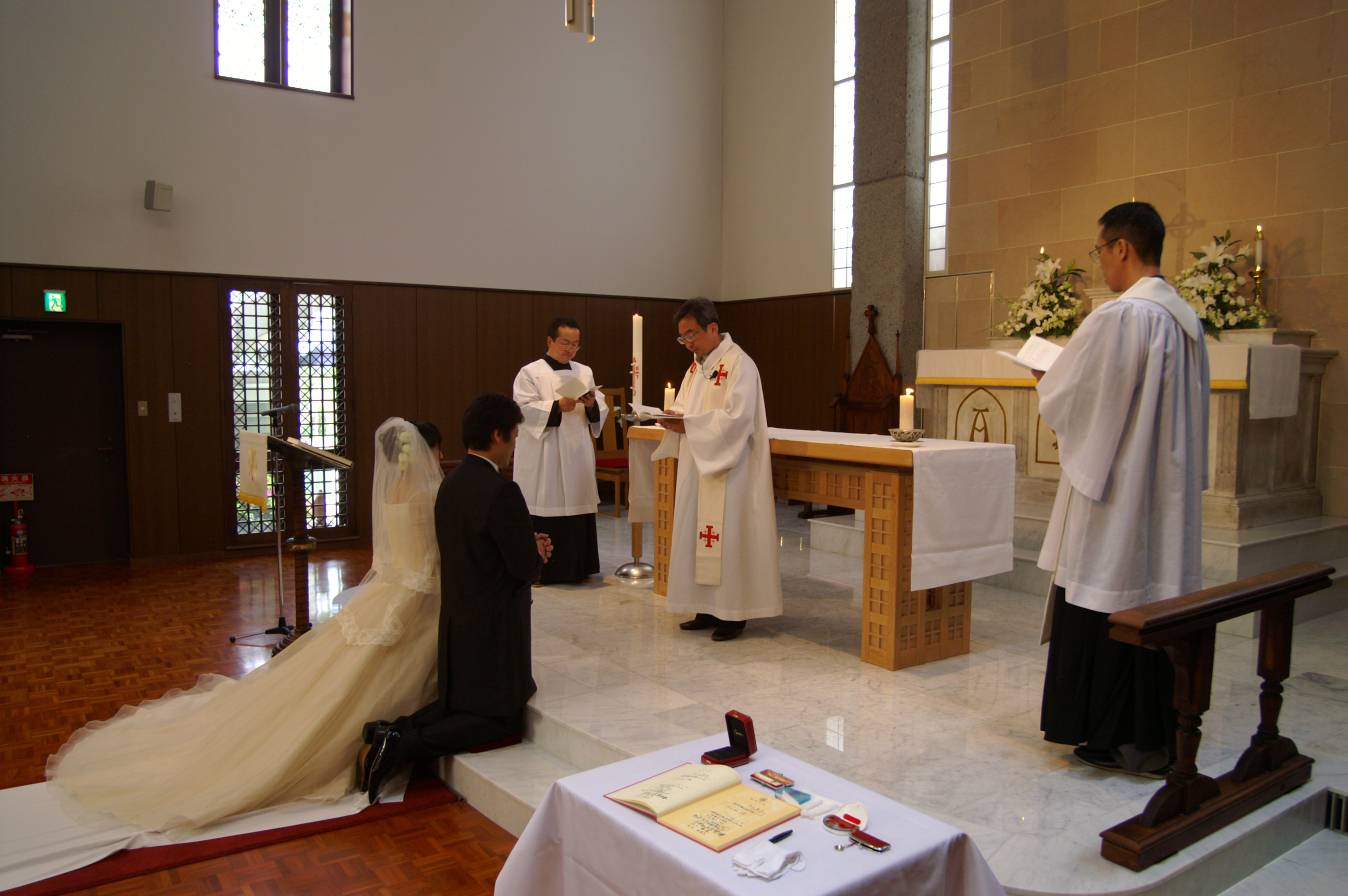 St Mary's Church, Kyoto (2007/05/05 Kyoto, Japan).